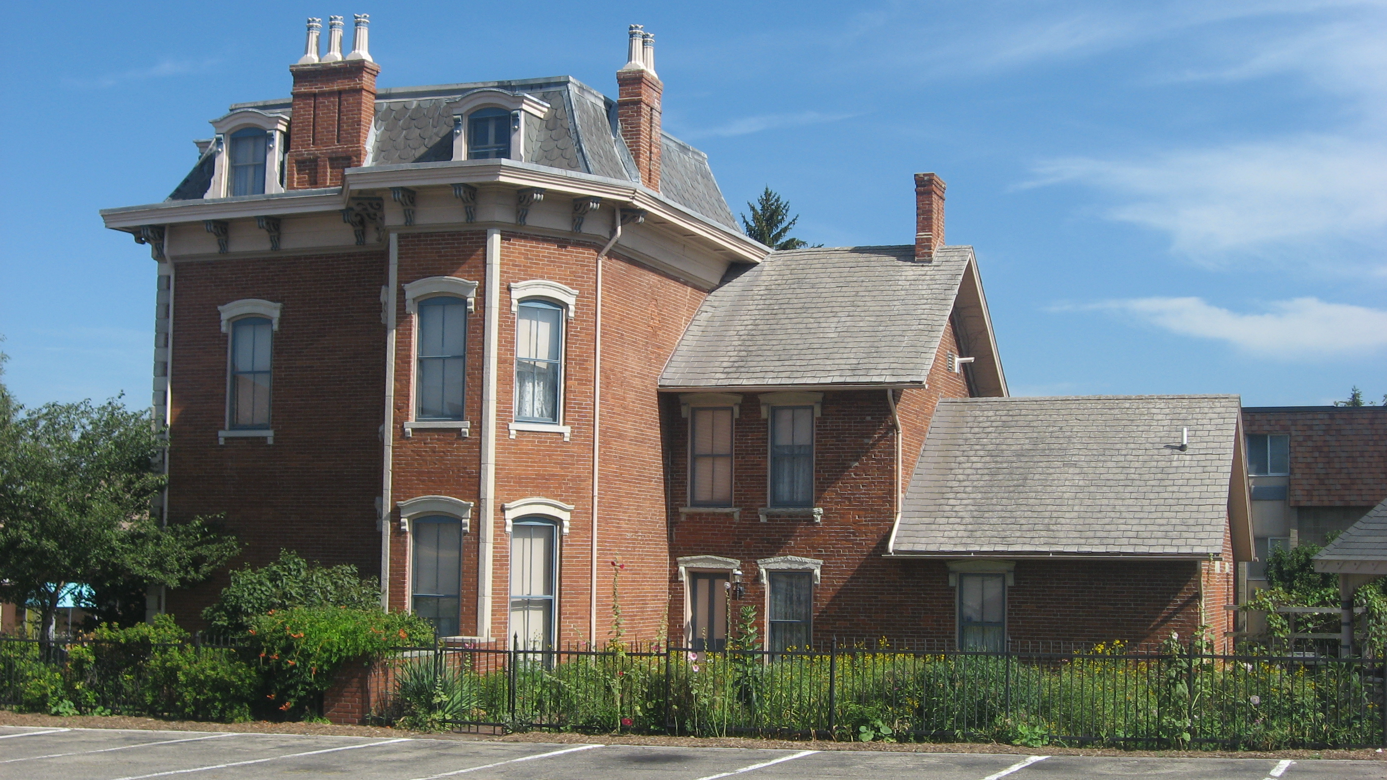 Southern side of the Gruenewald House, located at 626 N. Main Street in Anderson, Indiana, United States. Built in 1871, it is listed on the National Register of Historic Places.